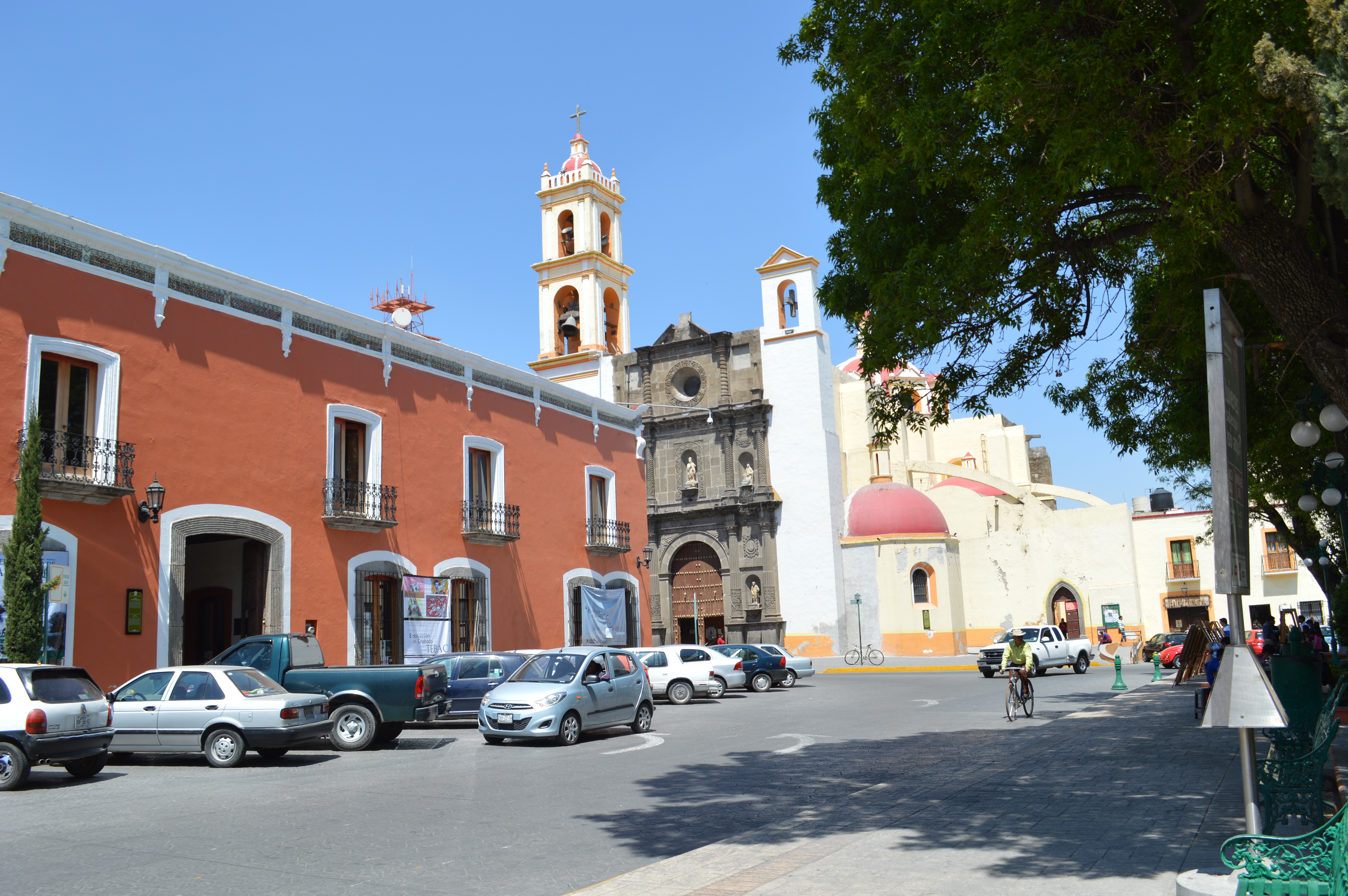 Parish of San Luis Obispo as seen from Parque Juarez in Huamantla, Tlaxcala, Mexico